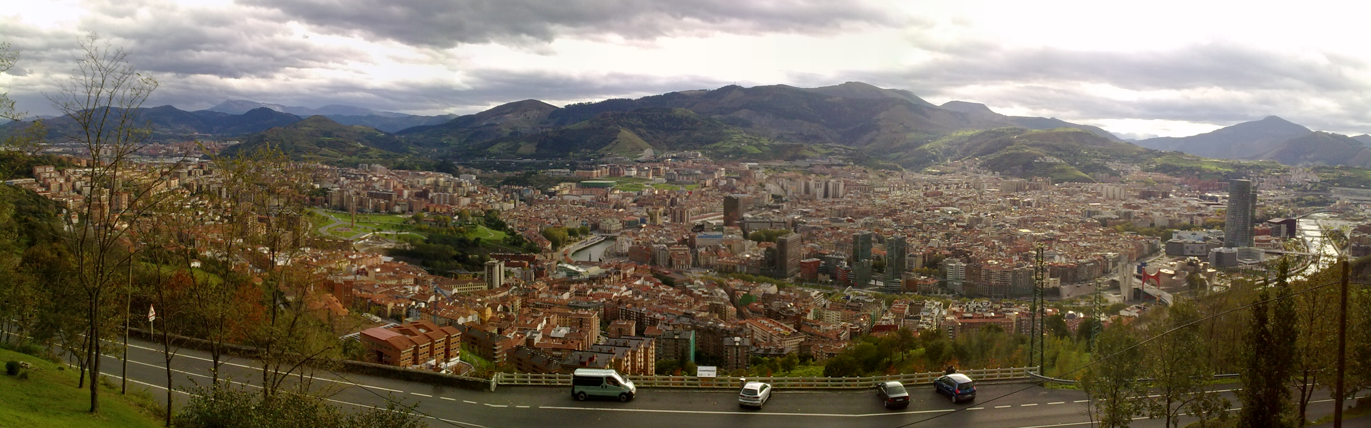 Bilbao panoramic view